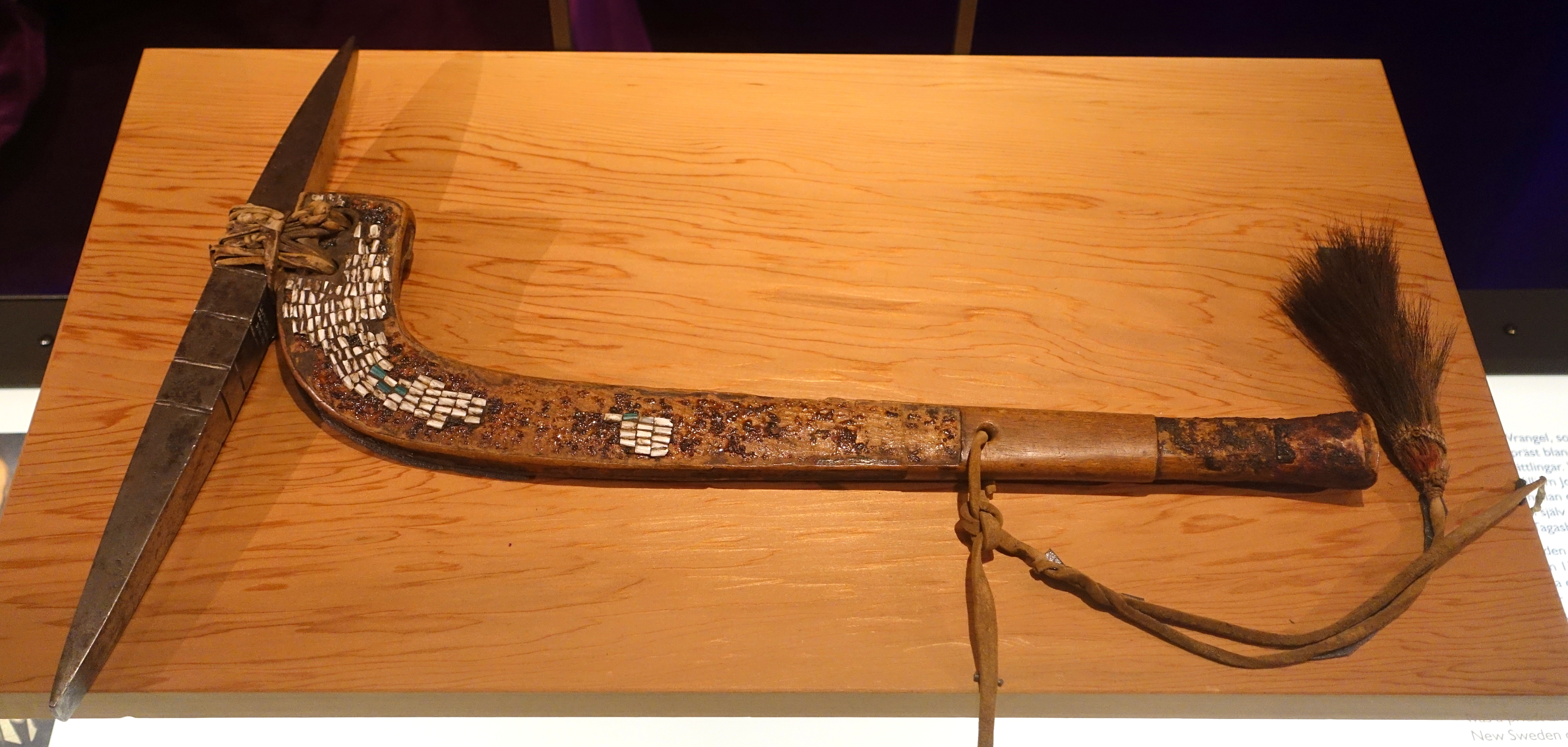 Exhibit in the Etnografiska museet, Stockholm, Sweden. This work is old enough so that it is in the public domain. This is a photo of an artwork at the Museum of Ethnography in Sweden with the identifier: 1889.04.4179